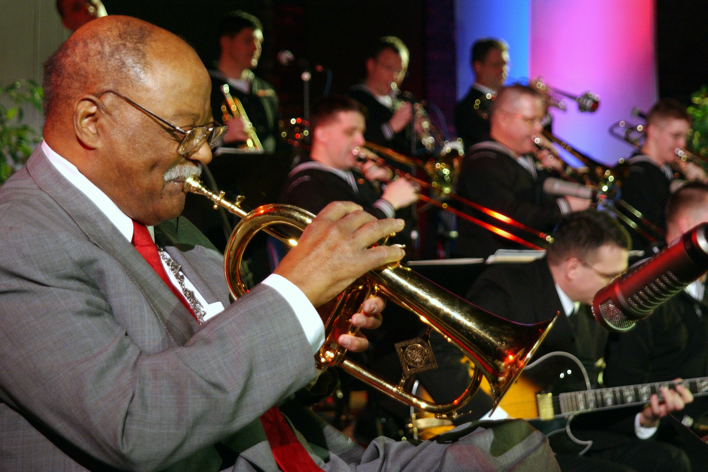 Legendary jazz trumpeter Clark Terry plays alongside the Great Lakes Navy Band Jazz Ensemble during a special concert “Great Lakes Experience.” Terry played in the all-star navy band at Great Lakes from 1941 to 1945 and was one of the first black navy musicians. Approximately 20 other former African American navy musicians, including Great Lake alumni, and guest conductor Gerald Wilson, were recognized for their dedicated service during the concert.